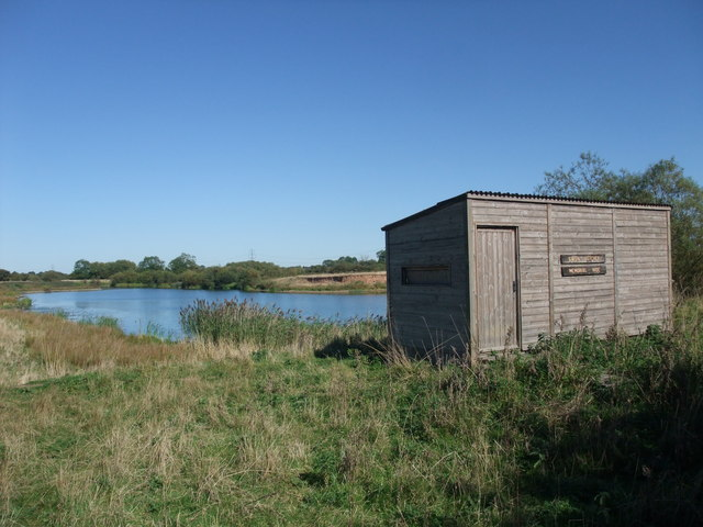 Gwen Butcher Memorial Hide, Besthorpe Nature Reserve